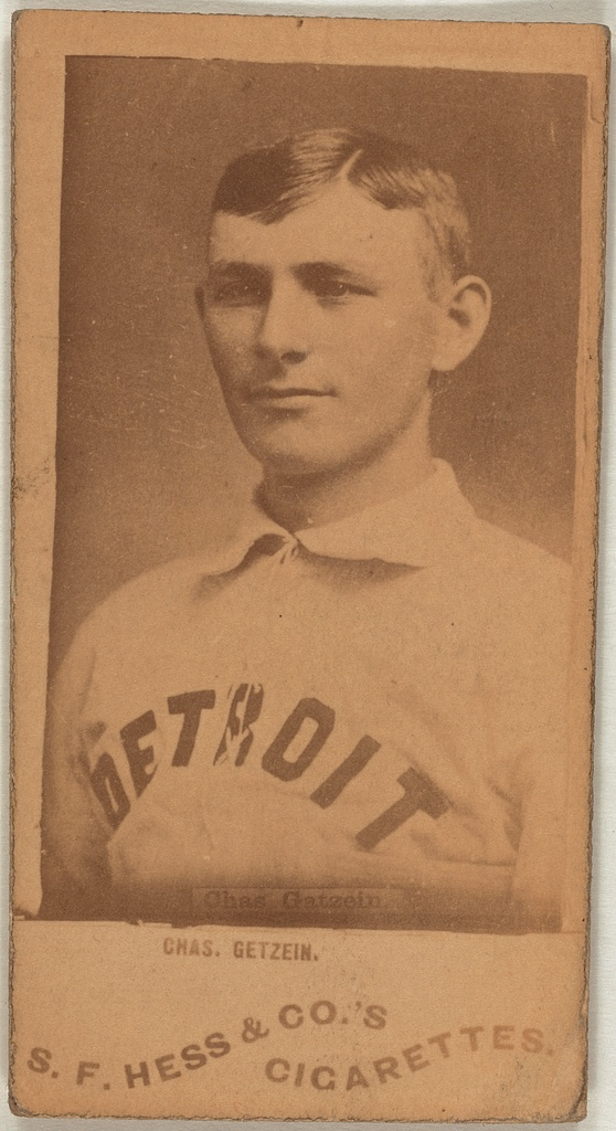 Chas. Getzein baseball card issued in 1889 by S.F. Hess & Co.'s Cigarettes, Library of Congress